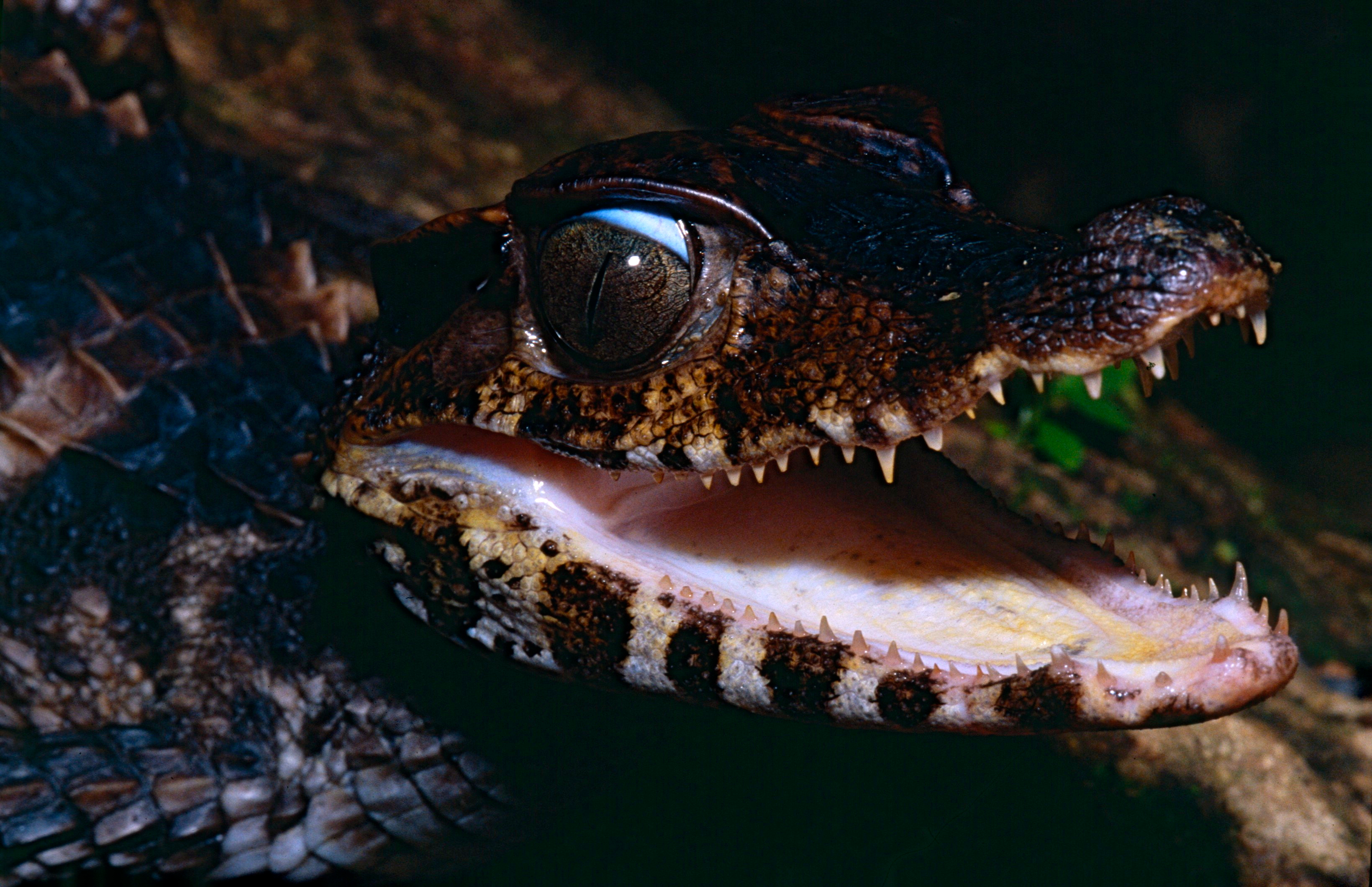 Montagne de Kaw, Guyane, FRANCE Scanned Slide from 2001